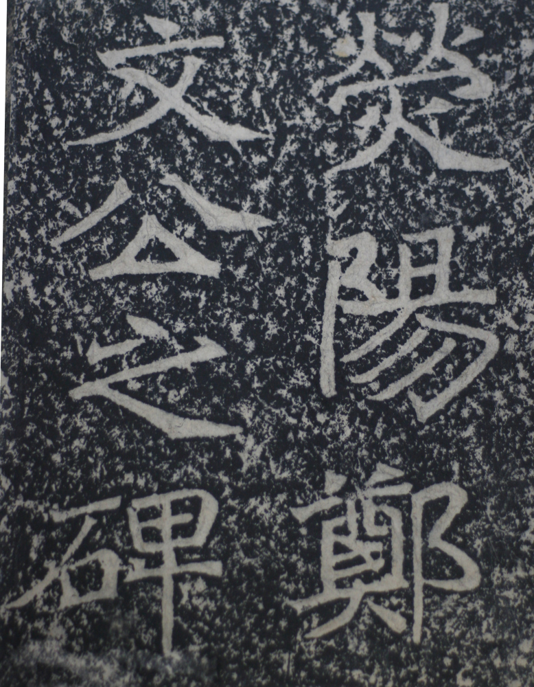 Top part of Cheng wen kung pei (Memorial to Cheng Yu-Lin), rubbing,45x35cm , Regular script, Original was engraved on the Criff , Wen po mountain, Shangtung, China in ACE 511.